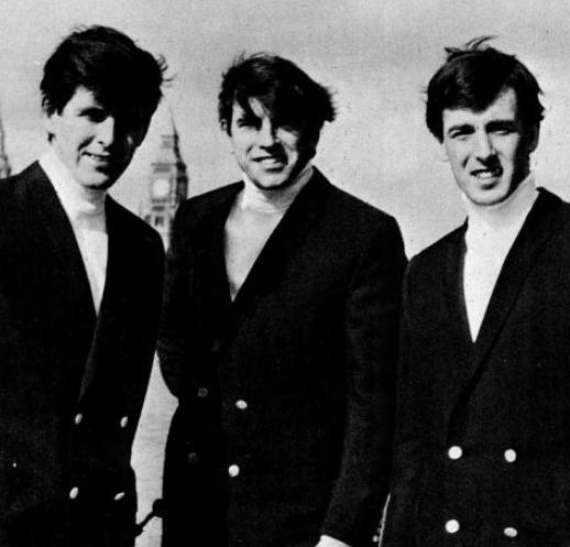 Trade ad for The Bachelors's single "Walk With Faith In Your Heart".To better adapt it to his respective Wikipedia article, the ad was cropped and cleaned in a graphics editing program. The original can be viewed at the source below.